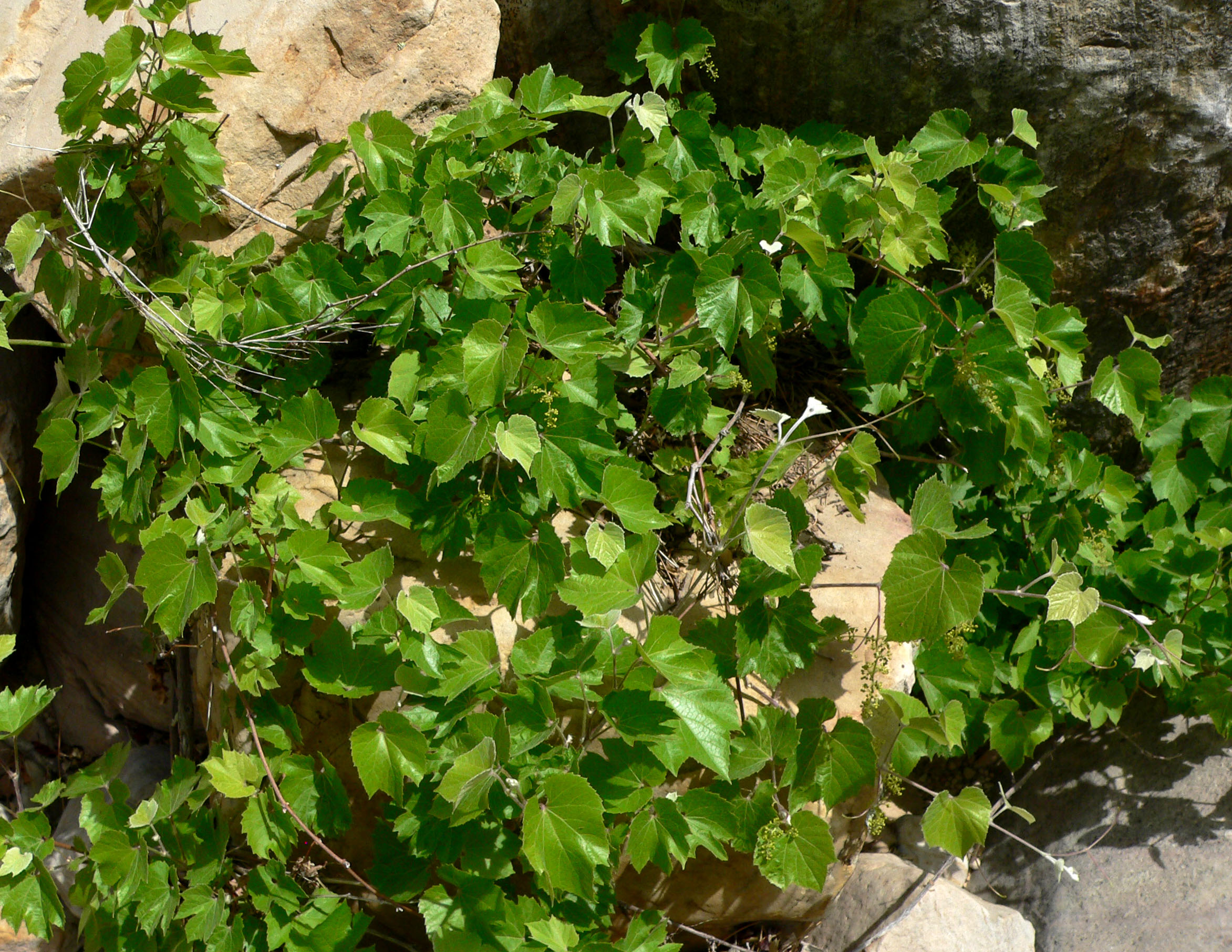 Vitis arizonica (Canyon grape) in Icebox Canyon — in the Red Rock Canyon National Conservation Area, Spring Mountains, southern Nevada.